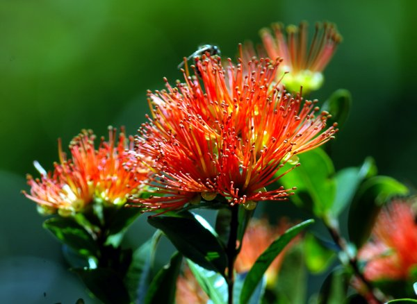 Metrosideros robusta, Northern Rātā, flowers, Mt Maungatautari, Waikato, New Zealand